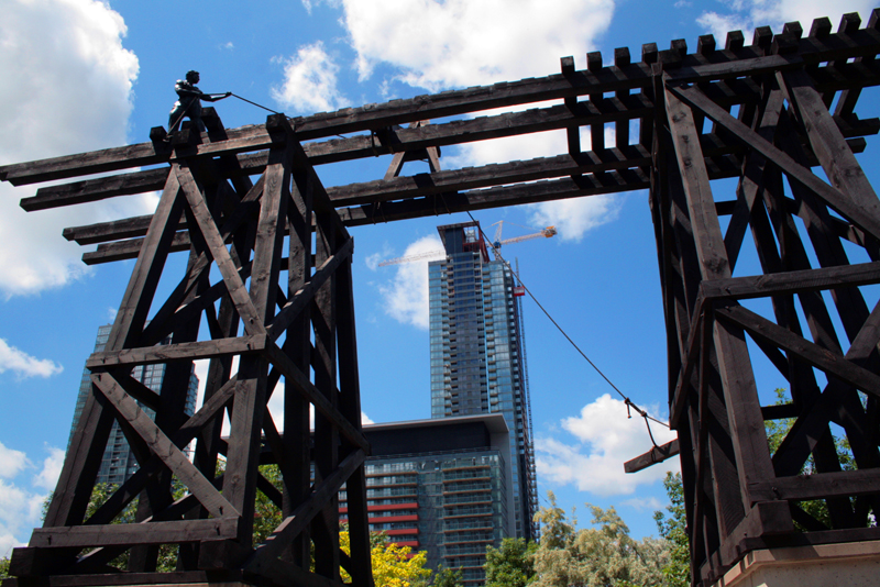 "Dedicated to the Chinese railway workers who helped construct the Canadian Pacific Railway through the Rocky Mountains of Alberta and British Columbia thus uniting Canada geographically and politically." "From 1880 to 1885 seventeen thousand men from the province of Kwangtung (Guangdong), China, came to work on the Western section of the railway through the treacherous terrain of the Canadian Rockies. Far from their families, amid hostile sentiments, these men labour long hours and made the completion of the railway physically and economically possible." "More than four thousand Chinese workers lost their during construction. With no means of going back to China when their labour was no longer needed, thousands drifted in near destitution along the completed track. All of them remained nameless in the history of Canada." "We erect this monument to remember them." September 1989